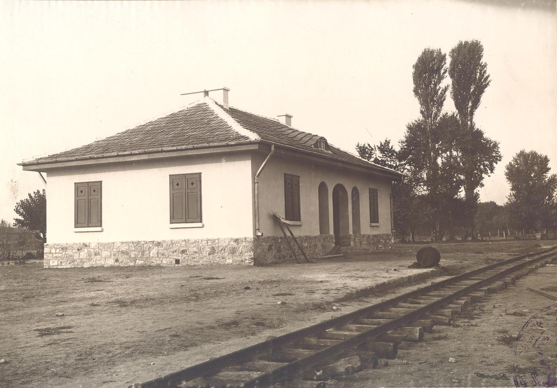 Pazardzhik-Varvara narrow gauge line, Lyahovo Railway Station, Bulgaria, 1928.